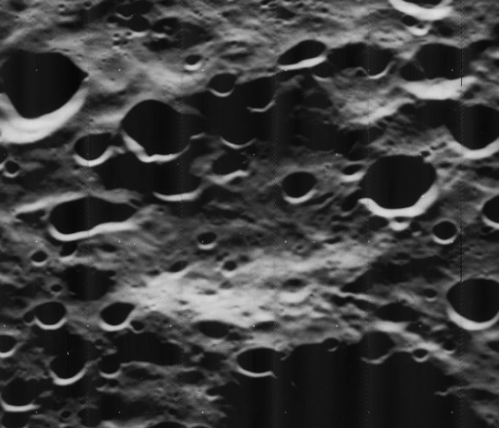 Oblique view of Comstock, on the far side of the moon, facing west.